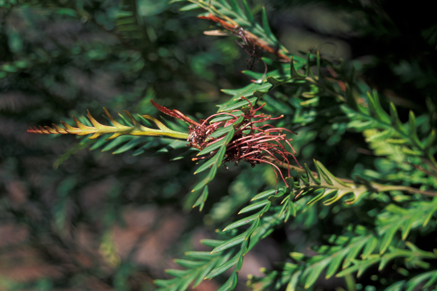 Grevillea 'Ivanhoe' (Grevillea longifolia x caleyi) (flower and leaves). Location: Maui, Enchanting Floral Gardens of Kula